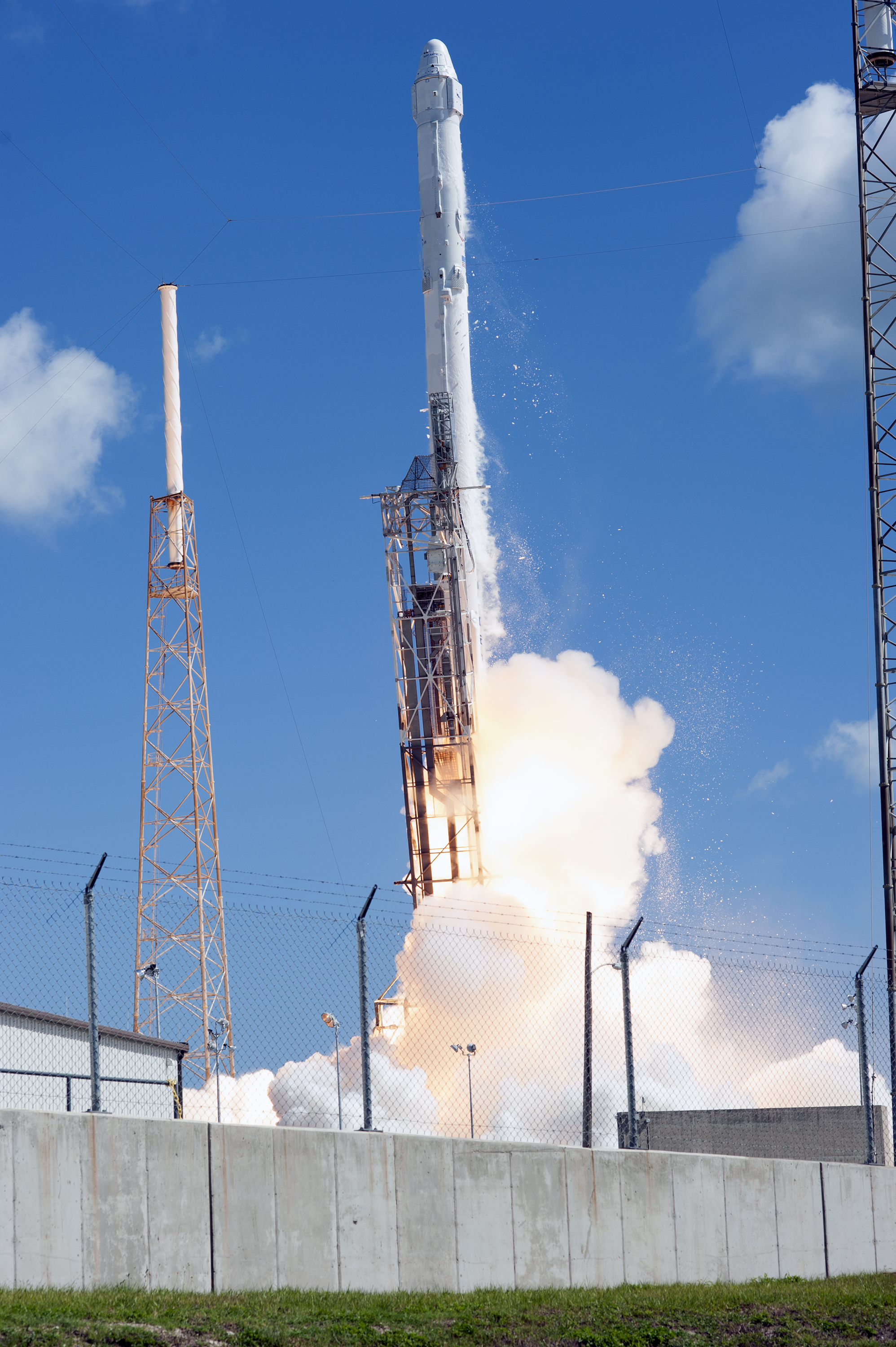 A SpaceX Falcon 9 rocket lifts off from Space Launch Complex 40 at Cape Canaveral Air Force Station in Florida. The Falcon 9 launched on time at 10:21 a.m. EDT. After liftoff, an anomaly occurred. SpaceX is evaluating the issue.